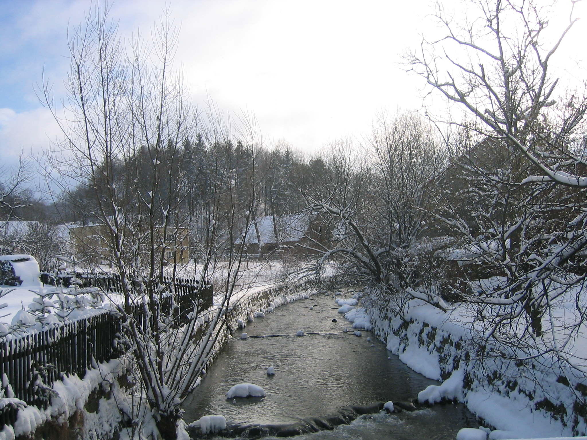 miłoszowski potok, south